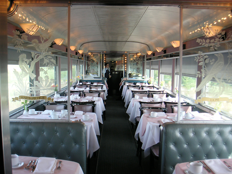 Canadian VIA Rail dining car interior. Image early June, 2005 by Anita J., uploaded with permission by User:Leonard G. Here the car has been prepared for the first serving of breakfast. Three seatings are served for each of three meals with service and food preparation to the highest standards.